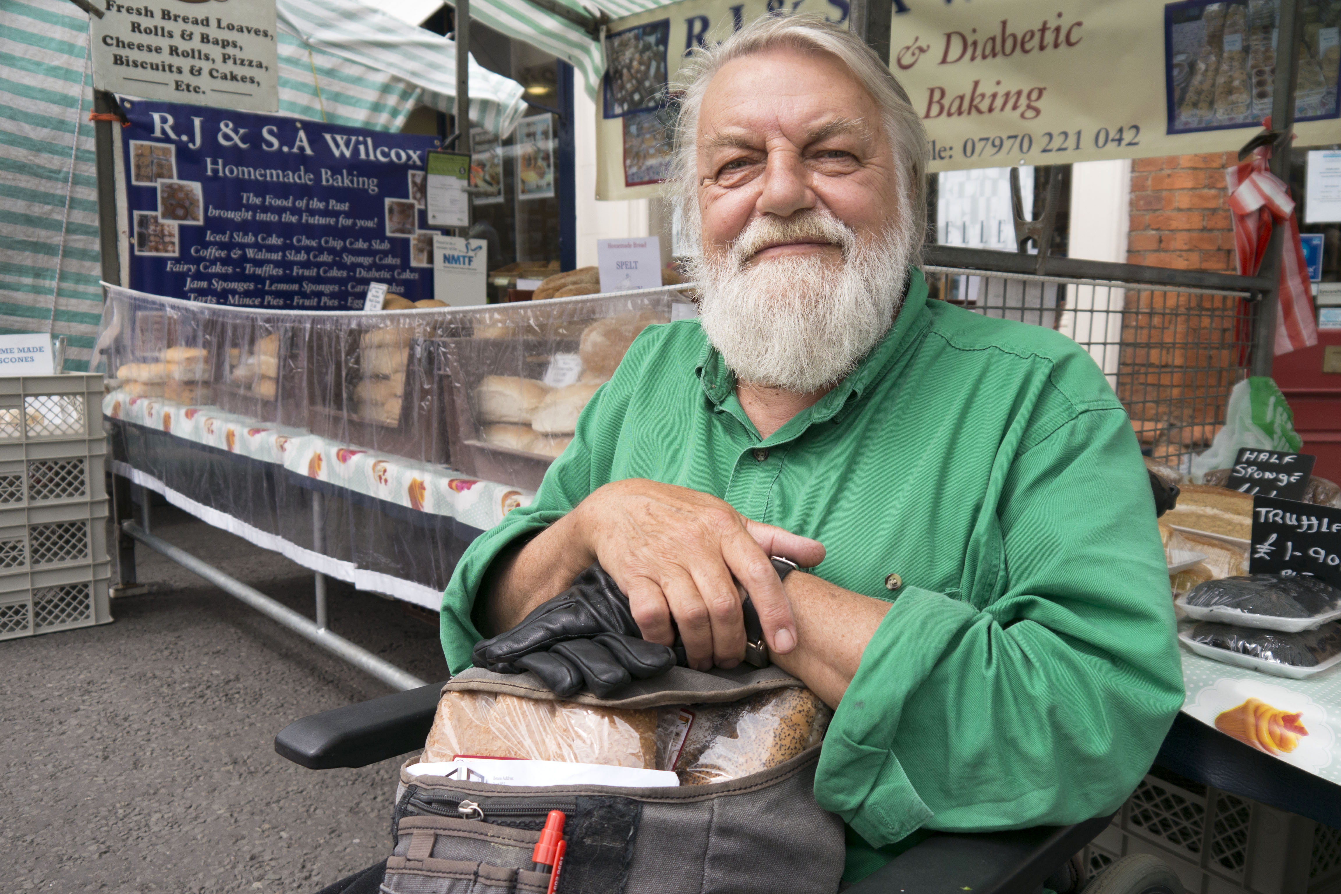 Robert Wyatt in 2013.